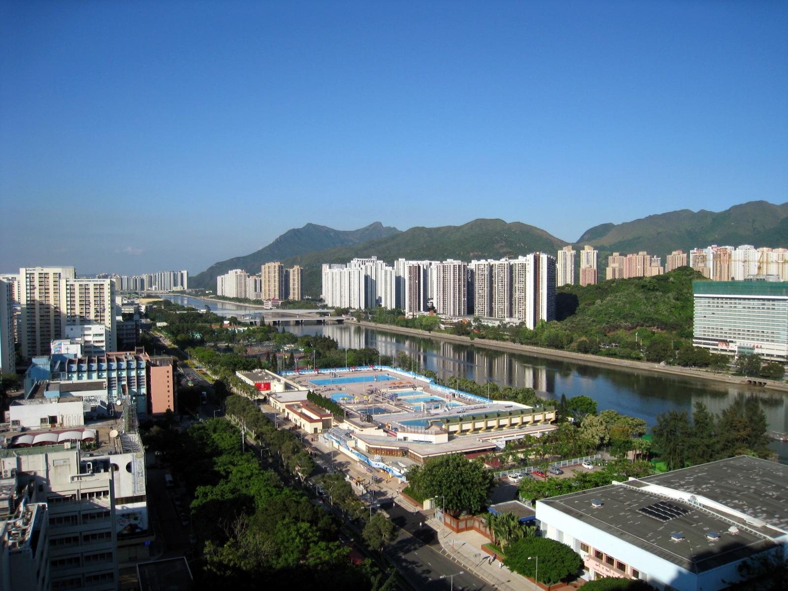 HK Sha Tin New Town